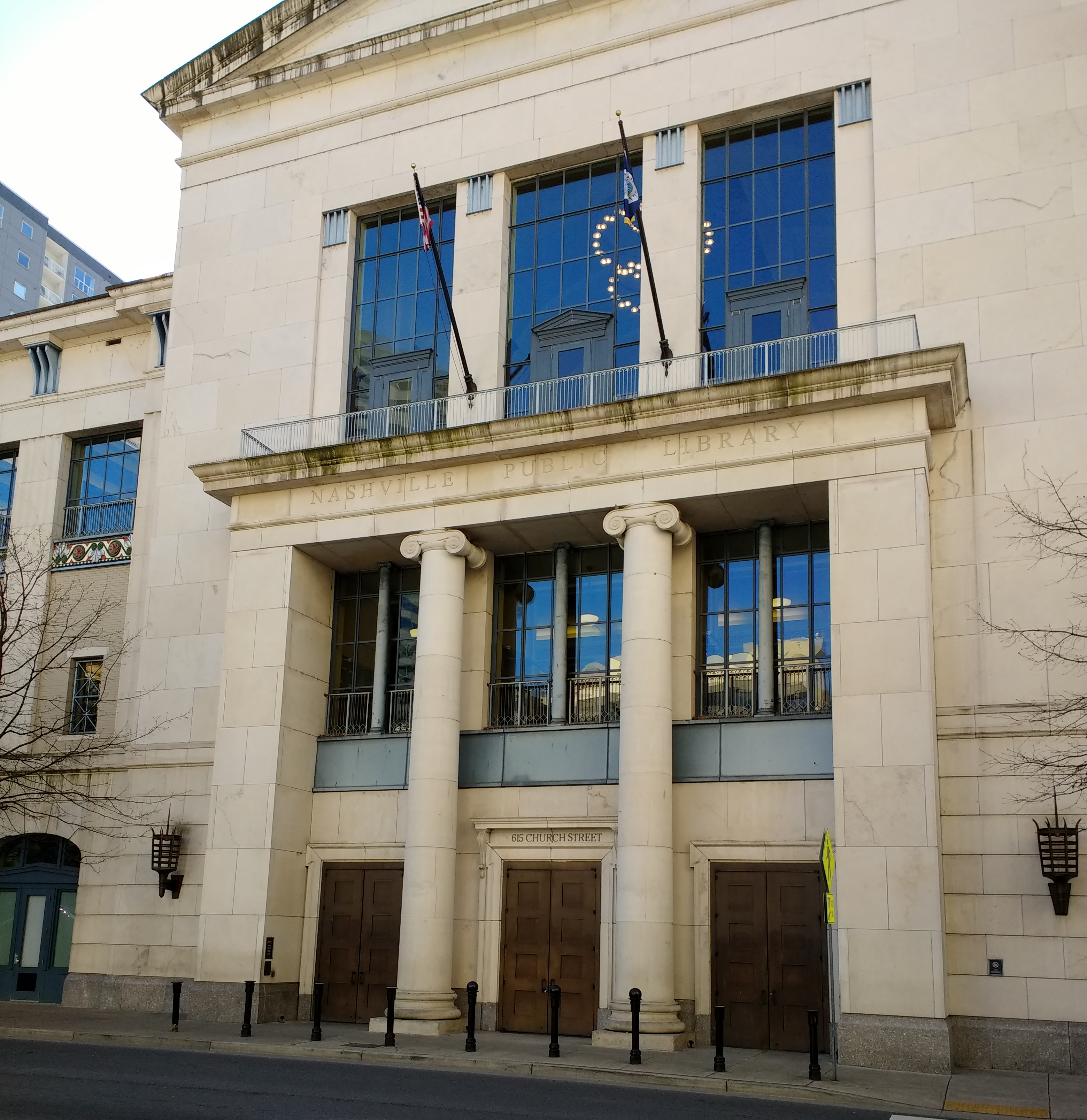 Main branch of the Nashville Public Library, at 615 Church St, Nashville, Tennessee.